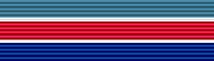 MM_Combat_bar.JPG